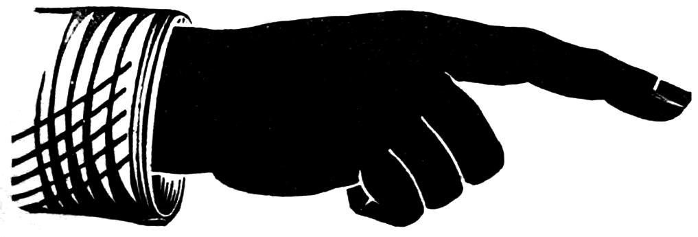 A right-pointing index or manicule from the Cincinnati Type Foundry, 1882